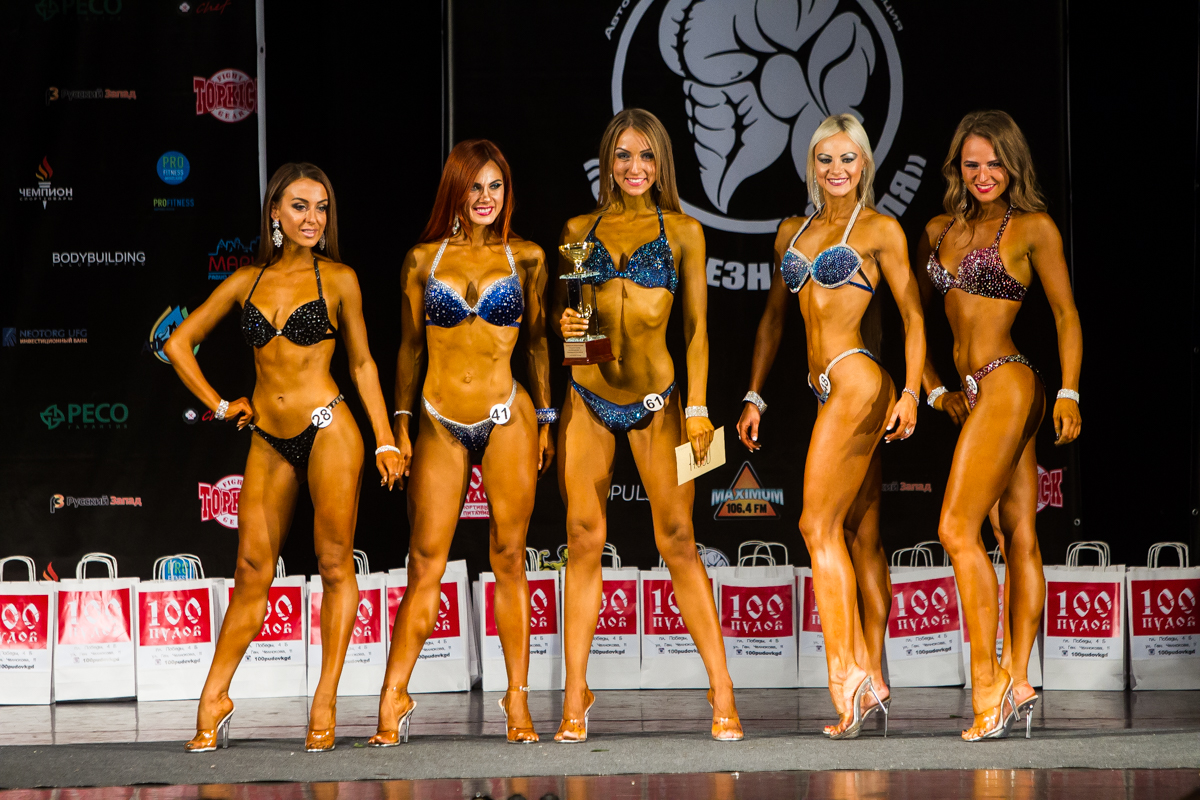 Bodybuilding and fitness bikini open tournament in Kaliningrad (2016-10-16)